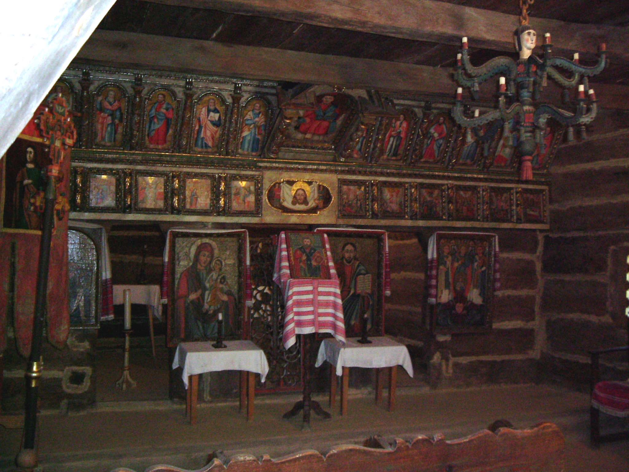 Iconostasis of the Mándok greek-catholic church, Hungary